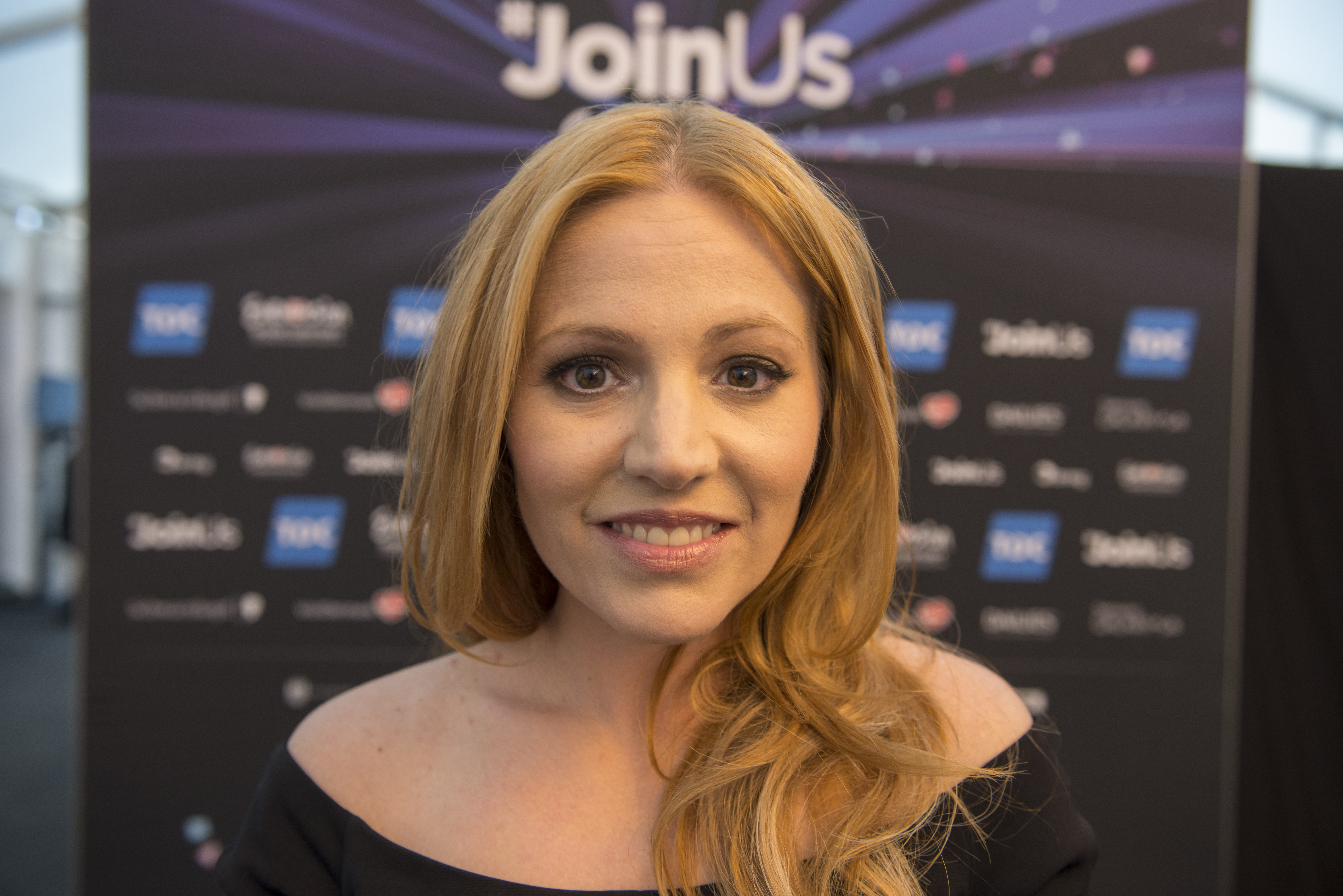 Valentina Monetta at a Meet & Greet during the Eurovision Song Contest 2014 Copenhagen. (Help translate this text)